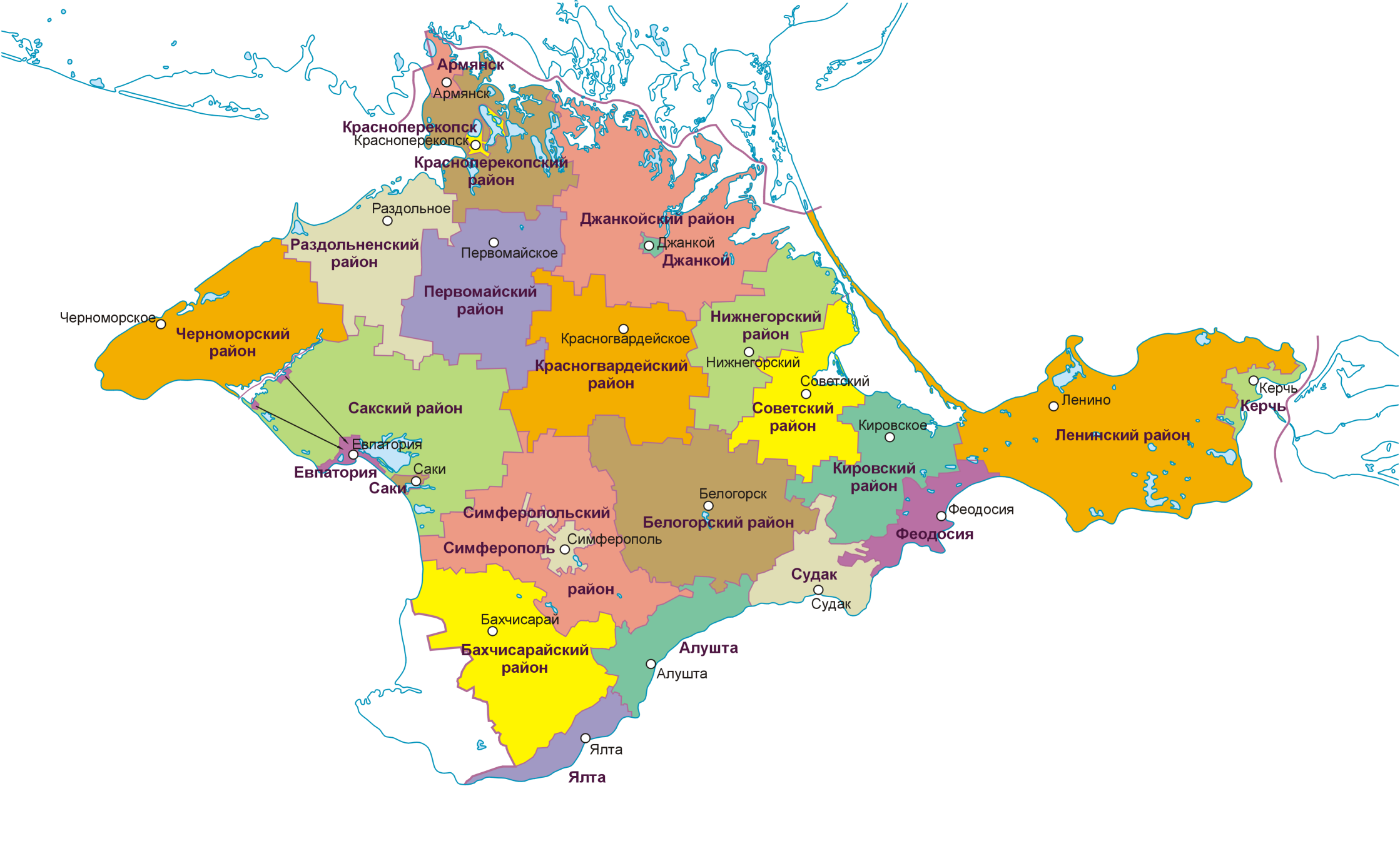 Administrative map of Crimea – Autonomous Republic of Crimea & Republic of Crimea. Russian version